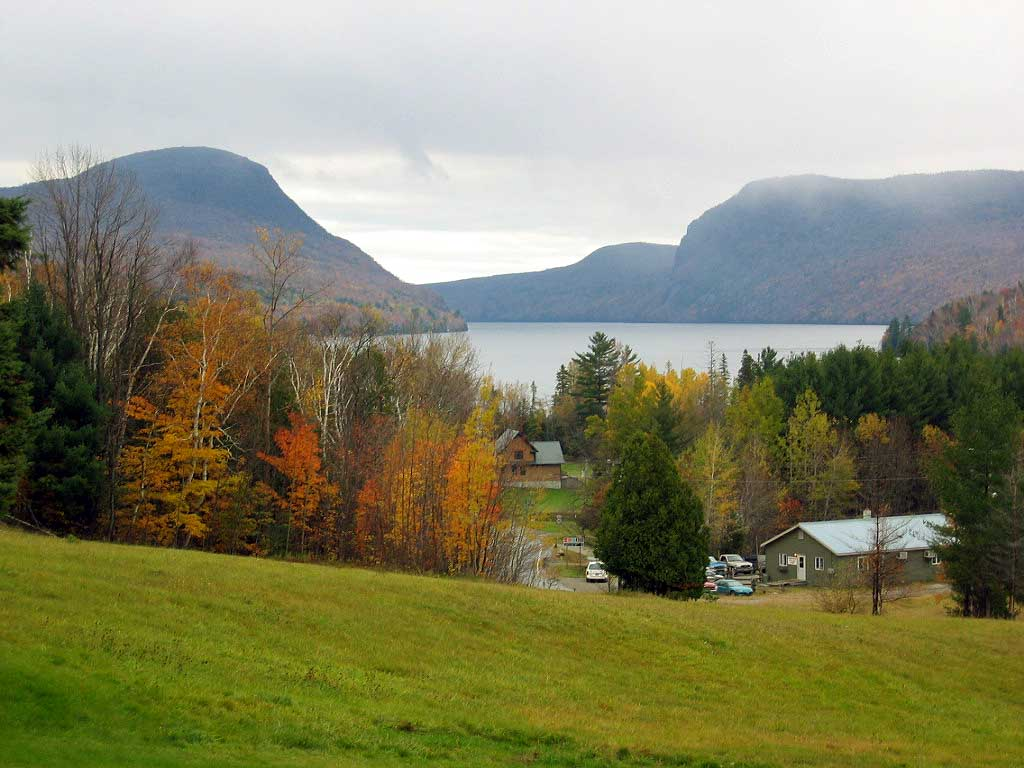 Photograph of Westmore, Vermont Mount Pisgah, Lake Willoughby, Mount Hor